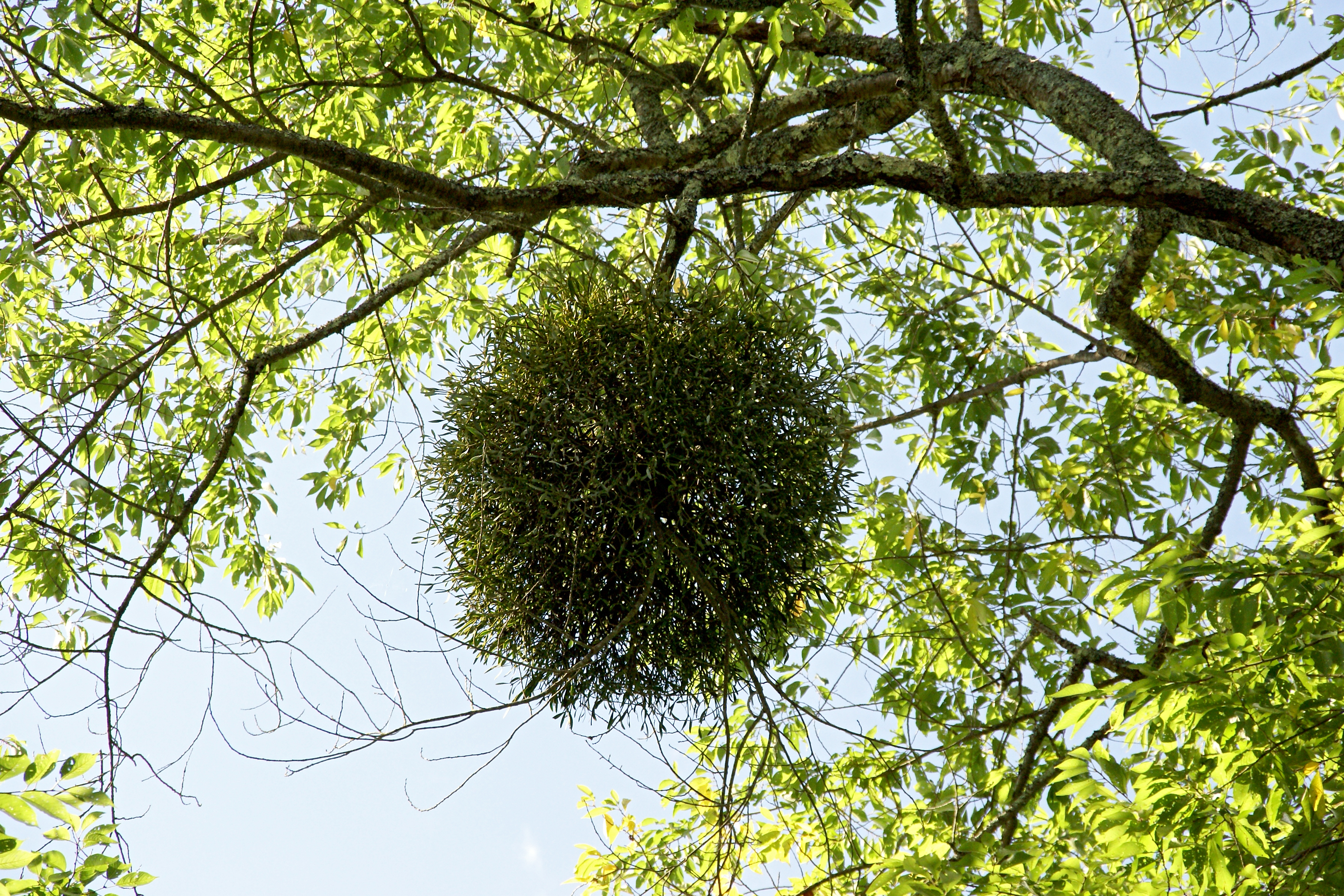 Viscum album at Nabekura Park in Tono, Iwate prefecture, Japan.